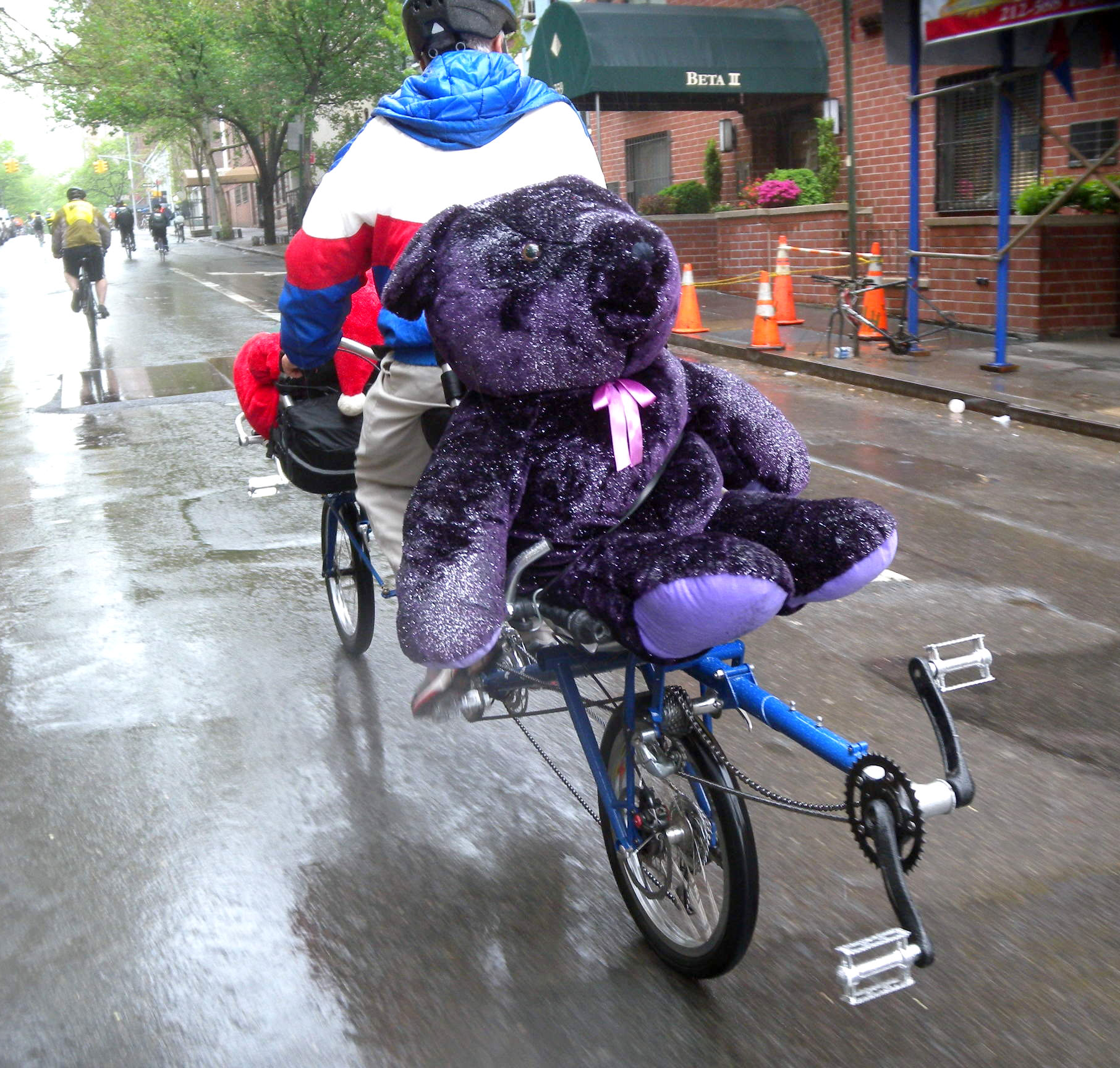 Looking north on a rainy Five Borough Bike Tour as a triple tandem bike climbs East 63d Street with Teddy coasting instead of stoking.